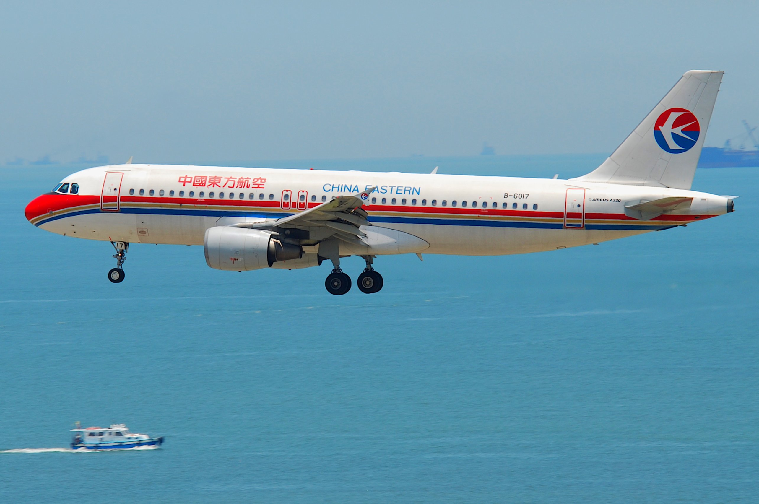 China Eastern Airlines Airbus A320-214; B-6017@HKG;04.08.2011/615id